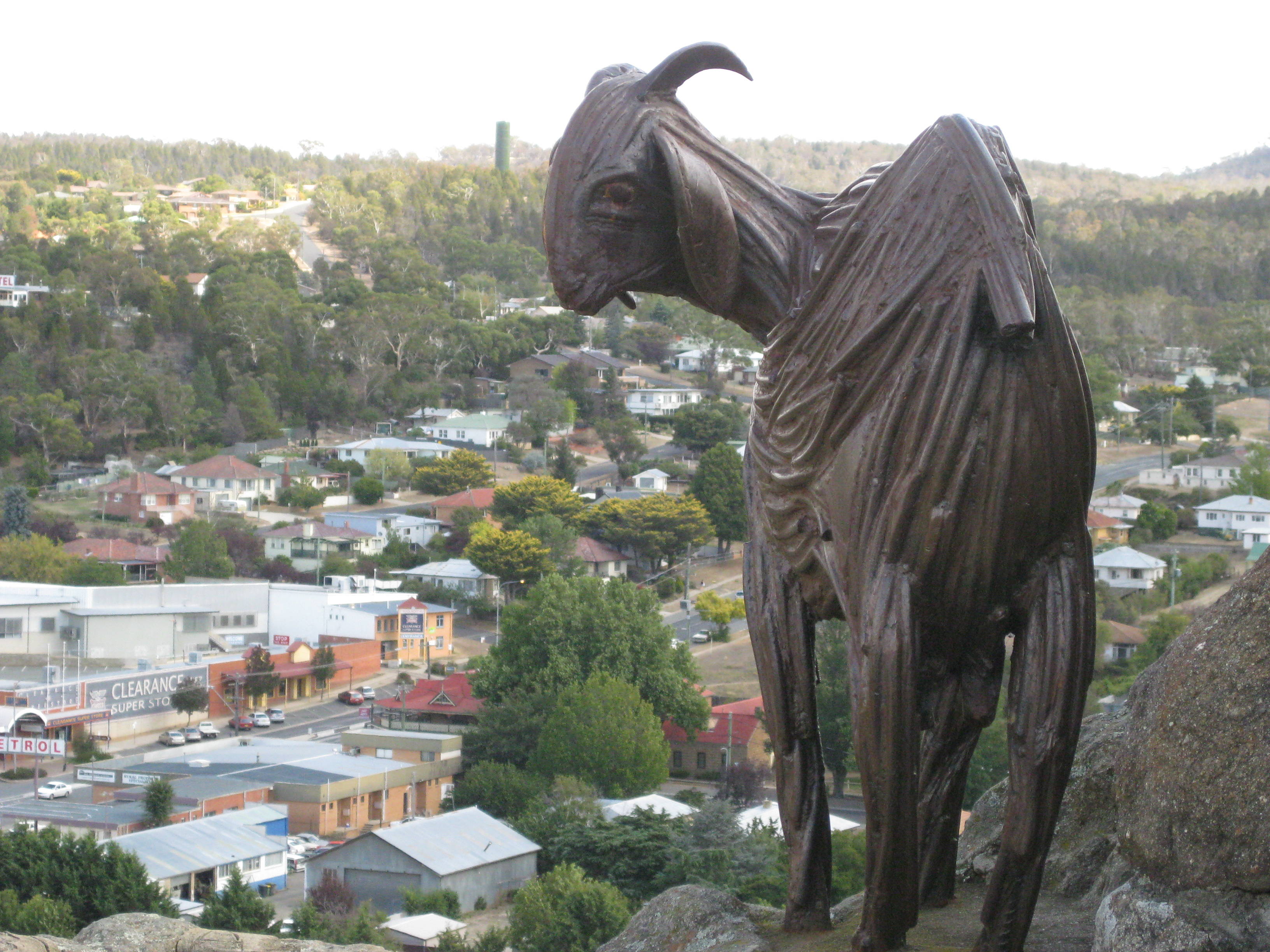 Nanny Goat Bronze Statue Nanny Goat Hill Cooma NSW